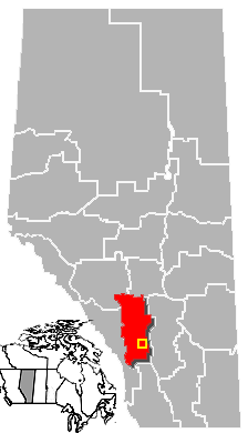 Location of Okotoks, Census Division No. 6, Albera